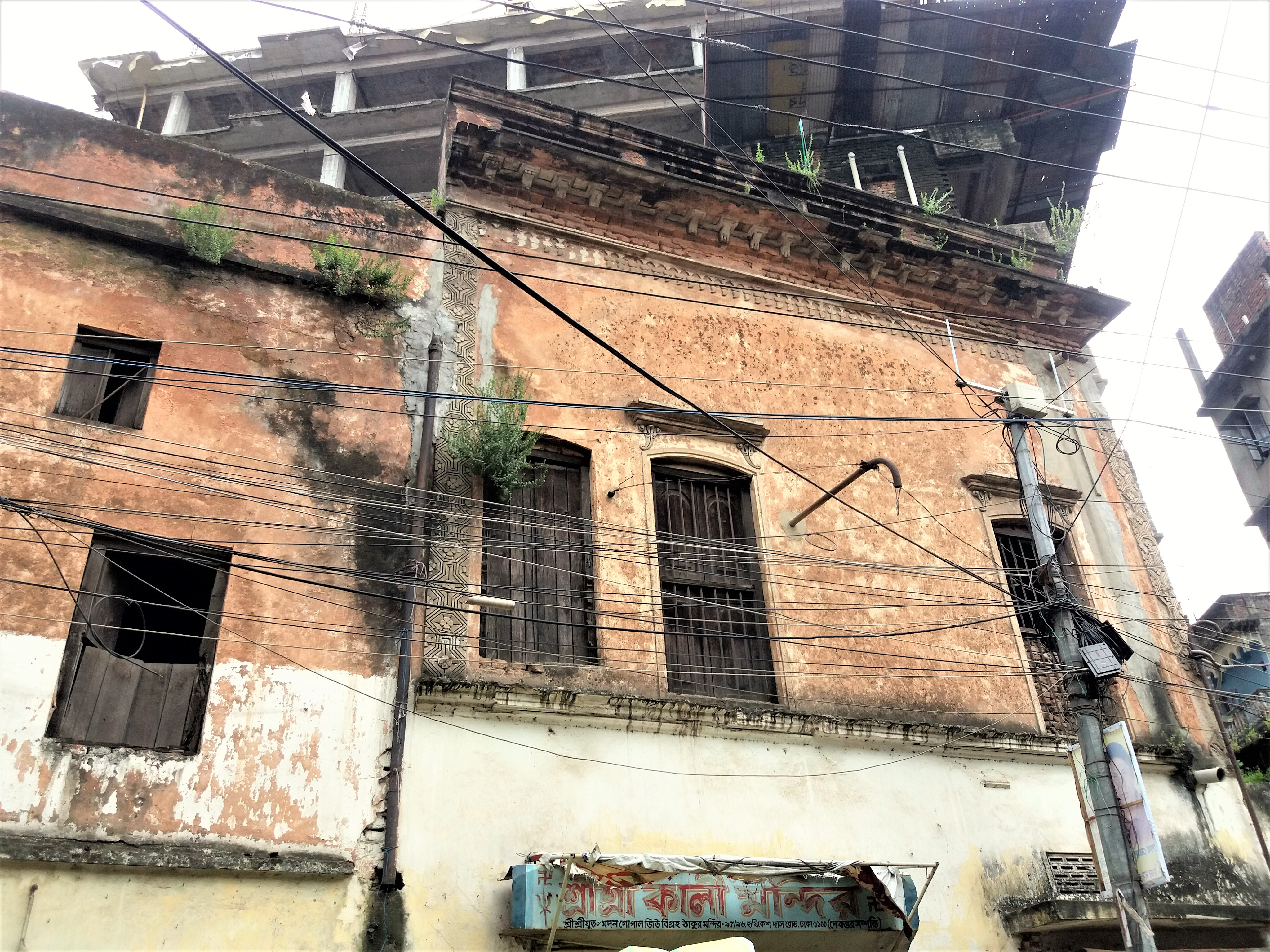 A hindu temple in Hrishikesh Das Road in Dhaka